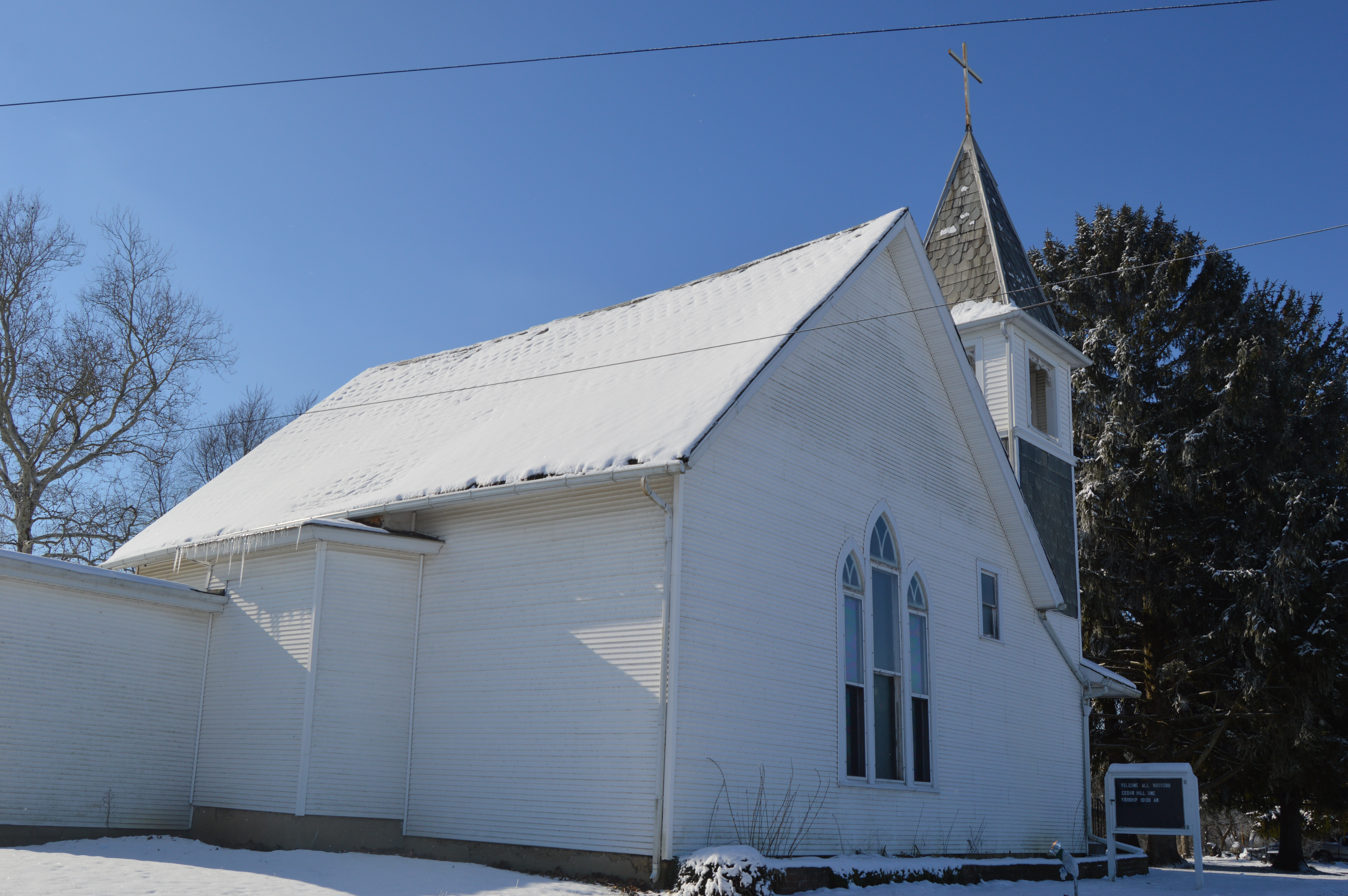 Front of Cedar Hill United Methodist Church, located on Westfall Road at Cedar Hill in western Amanda Township, Fairfield County, Ohio, United States.